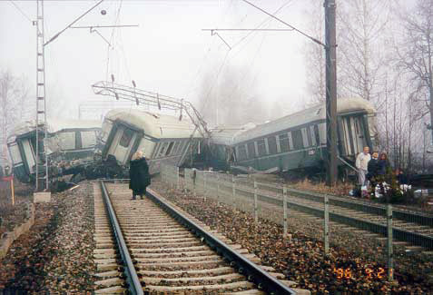 Picture showing fog on the accident site of the Jokela rail accident one and a half hours after the accident.